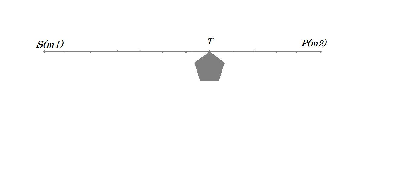 Center of the mass